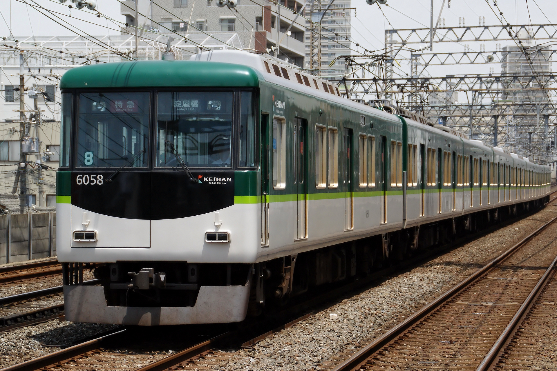 Keihan Electric Railway 6000 series EMU set 6008 approaching Doi Station on the Keihan Main Line in Moriguchi, Osaka Prefecture, Japan